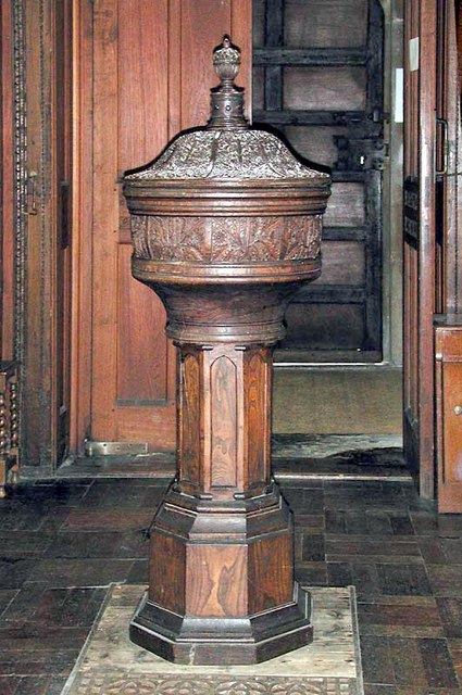 Oxhey Chapel - Font